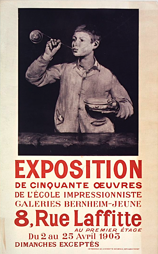 Lithographic poster for Exposition de cinquante oeuvres de l'Ecole impressionniste. Galeries Bernheim-Jeune, 8 rue Lafitte, au premier étage. : Du 2 au 25 avril 1903, dimanches exceptés. Image : Les bulles de savon, after Edouard Manet.